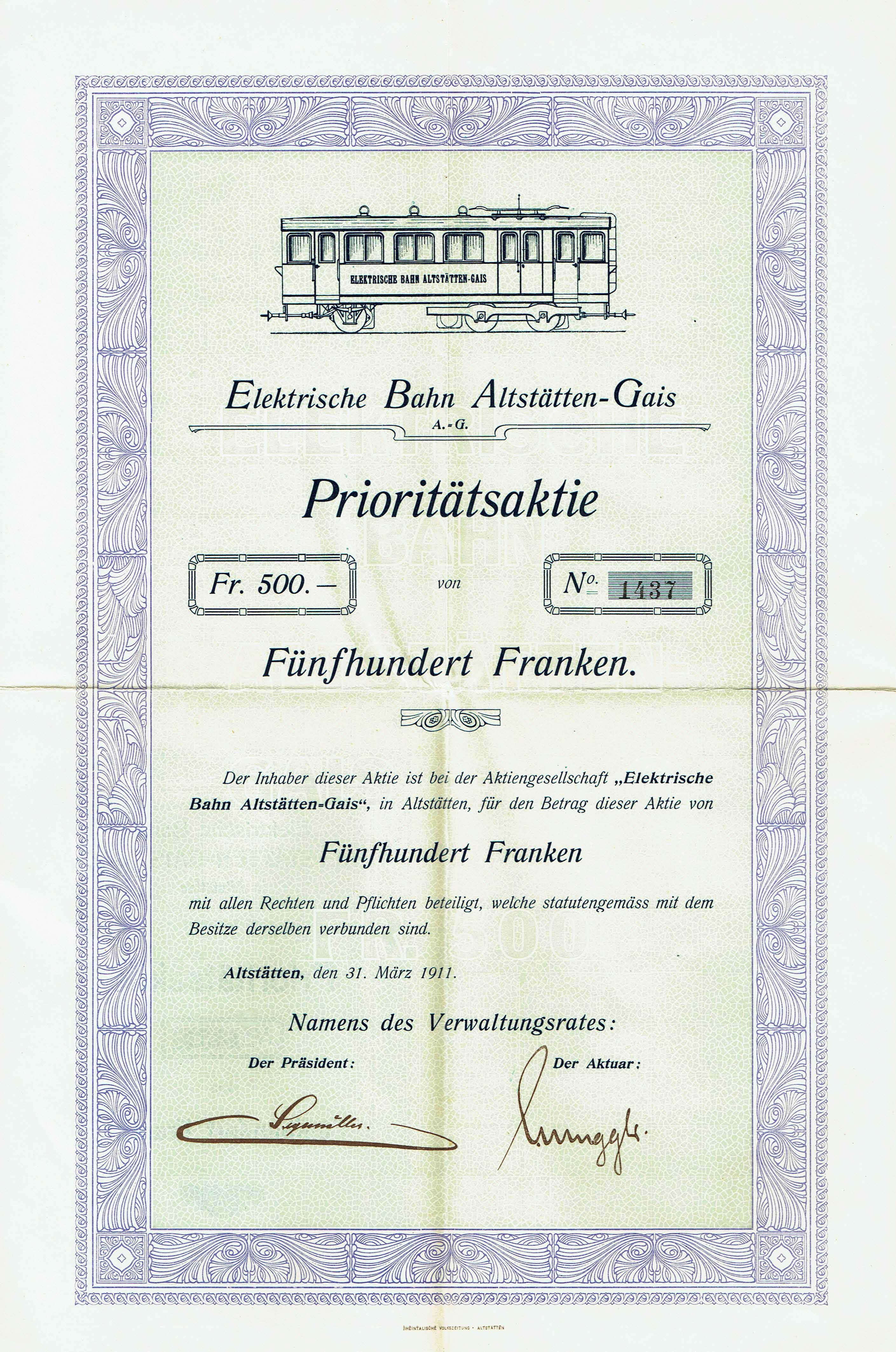 Share of the Elektrische Bahn Altstätten-Gais AG, issued 31. March 1911